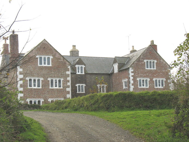 Bodwrda - a Jacobean gem